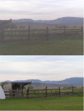 Comparison of how a fly mask for horses does not significantly impair vision. Horses wearing fly masks are not "blindfolded," they can see through the mesh